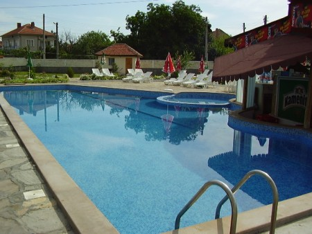 Aquapark in the town of Elhovo, Bulgaria